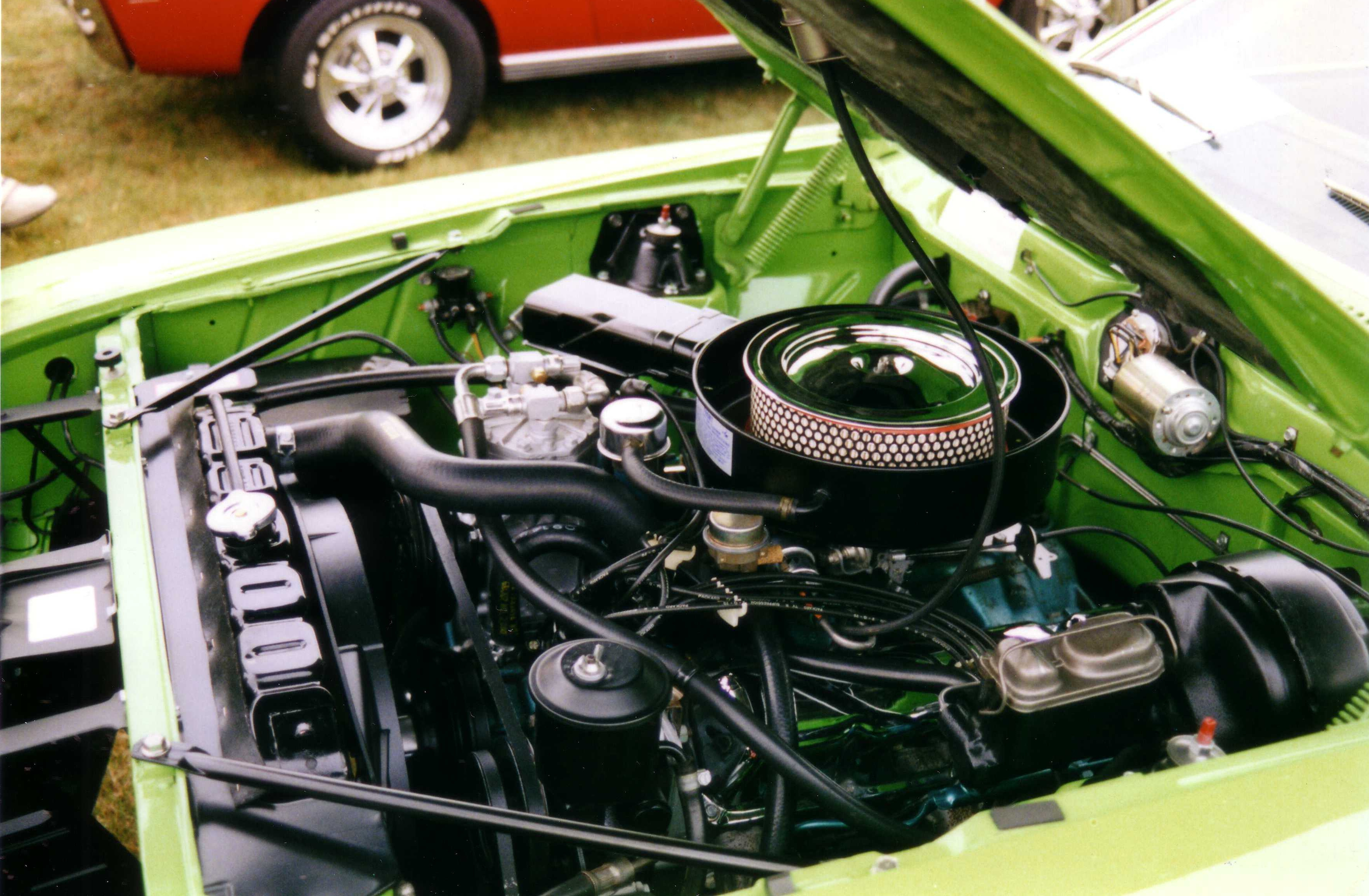 Engine of a 1970 AMC (American Motors Corporation) AMX sports coupe finished in Big Bad Green (BBG) with a black C-stripe. This car has the 390 CID (6.4 L) engine with "Go Package" option.